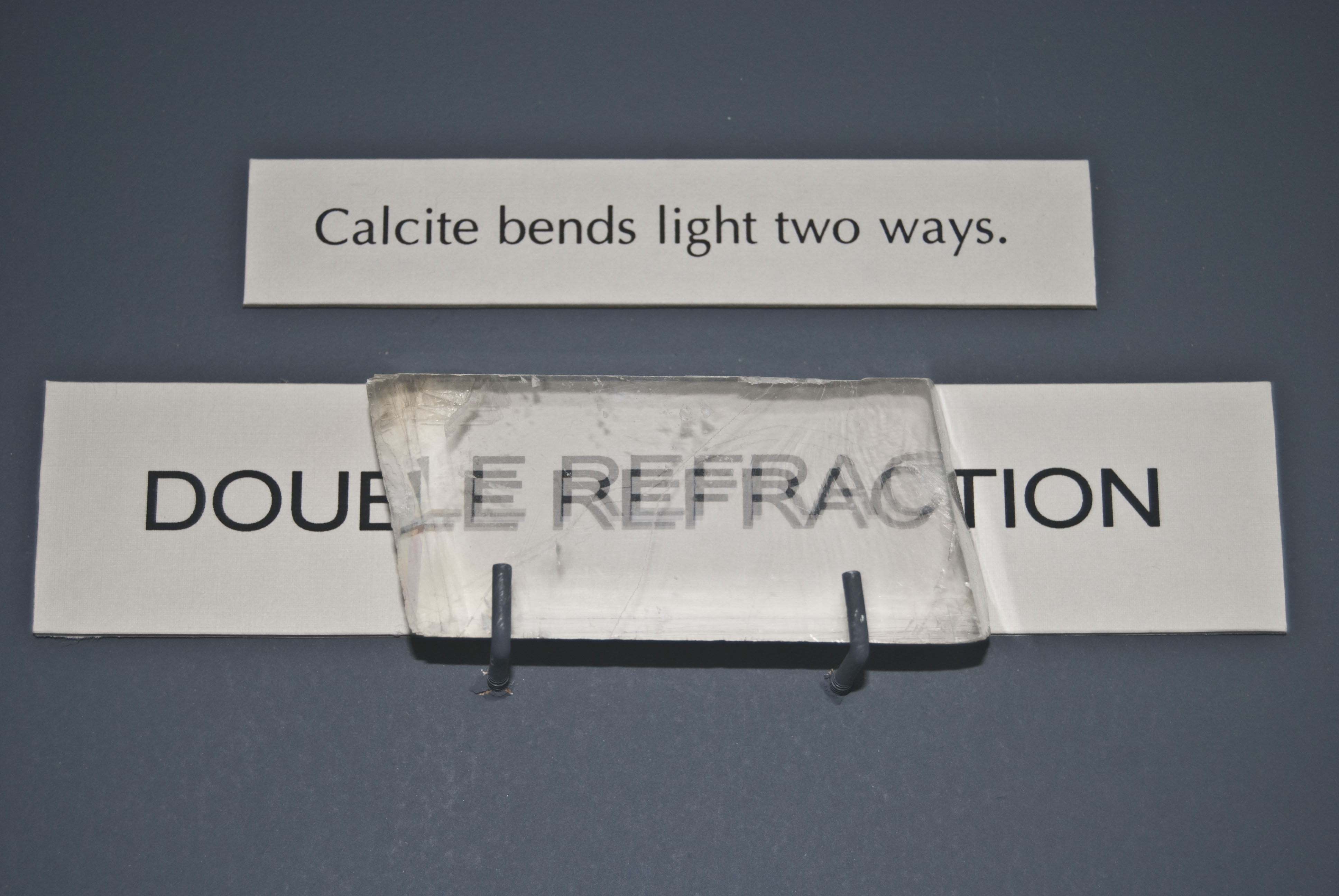 Norman and Gertrude Pendleton mineral collection Calcite refraction of light